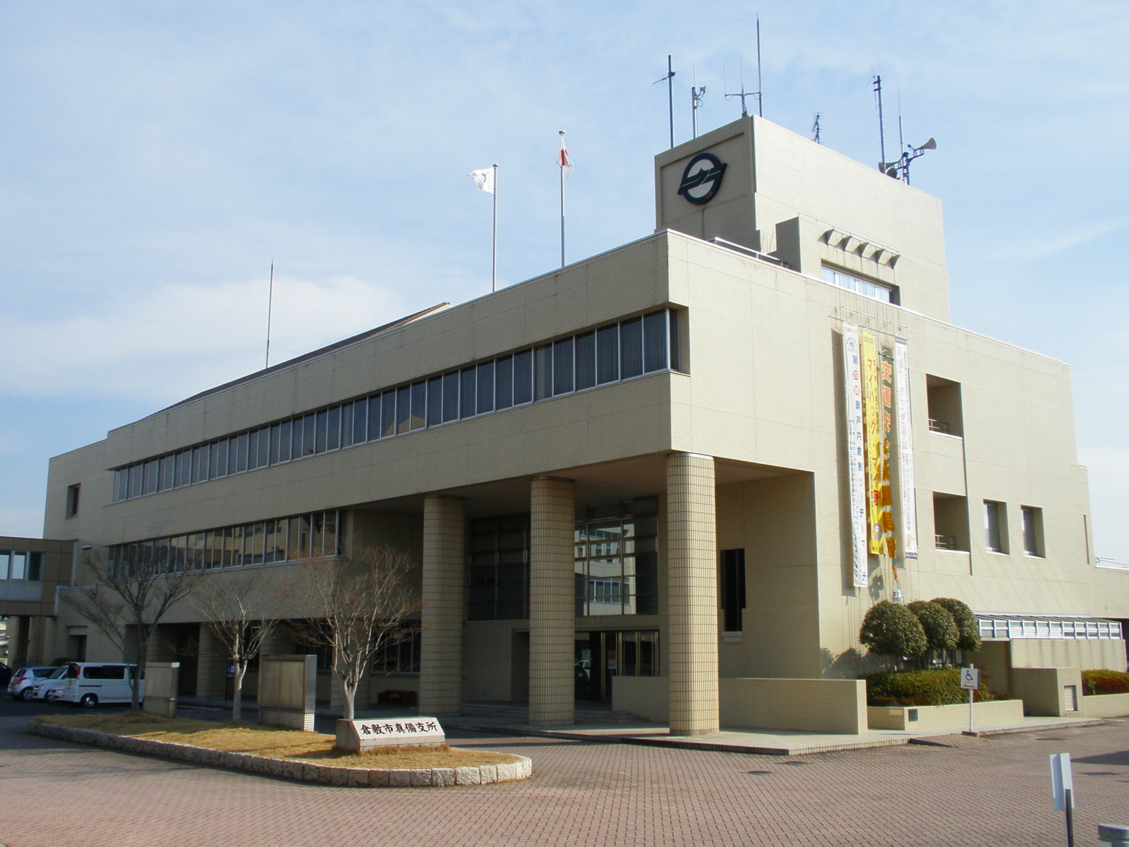 Kurashiki city office Mabi branch Former Mabi town office (1984.10 - 2005.7.31)